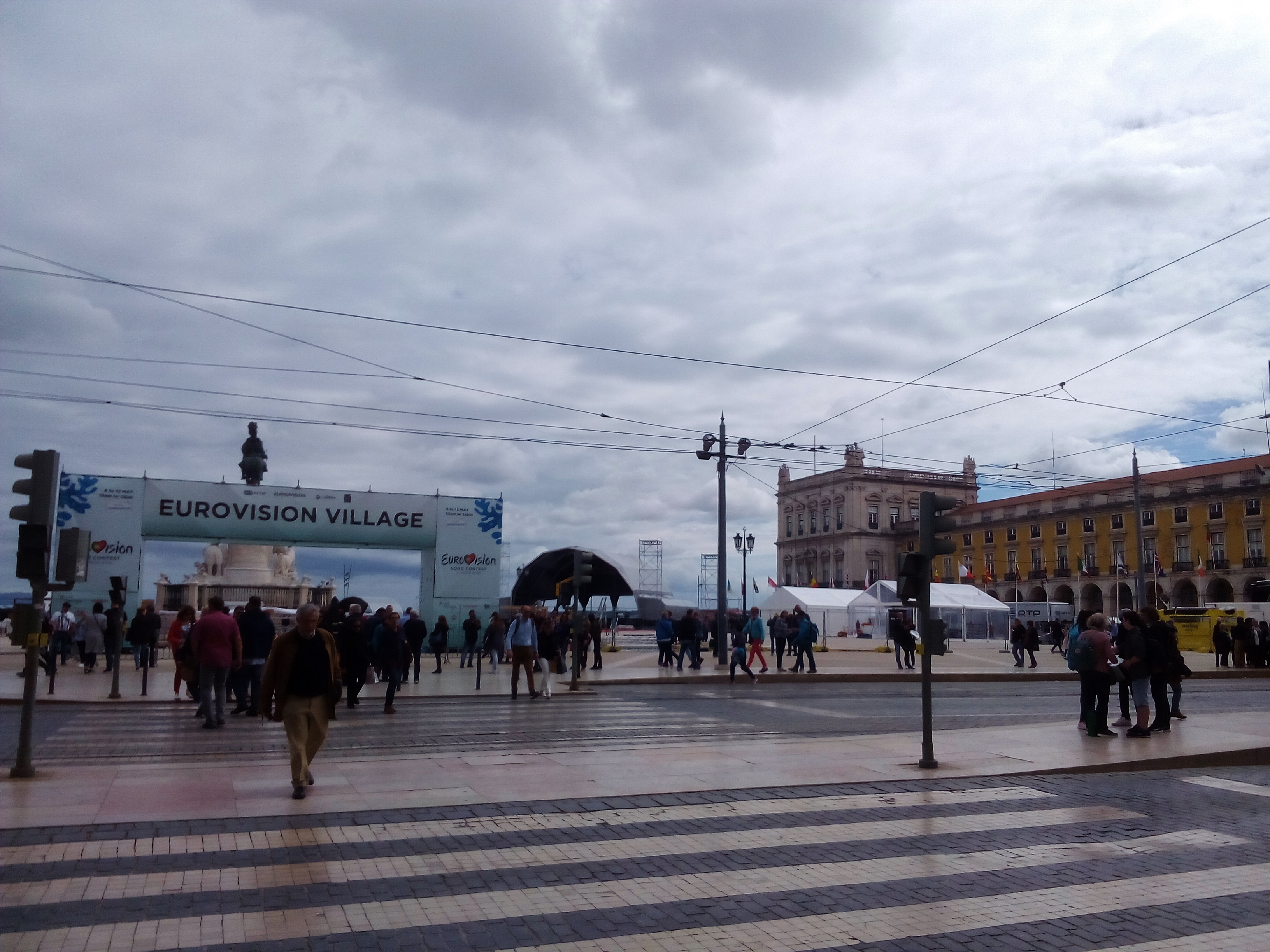 The Eurovision Village at Commerce Square, Lisbon, Portugal (2 May 2018).